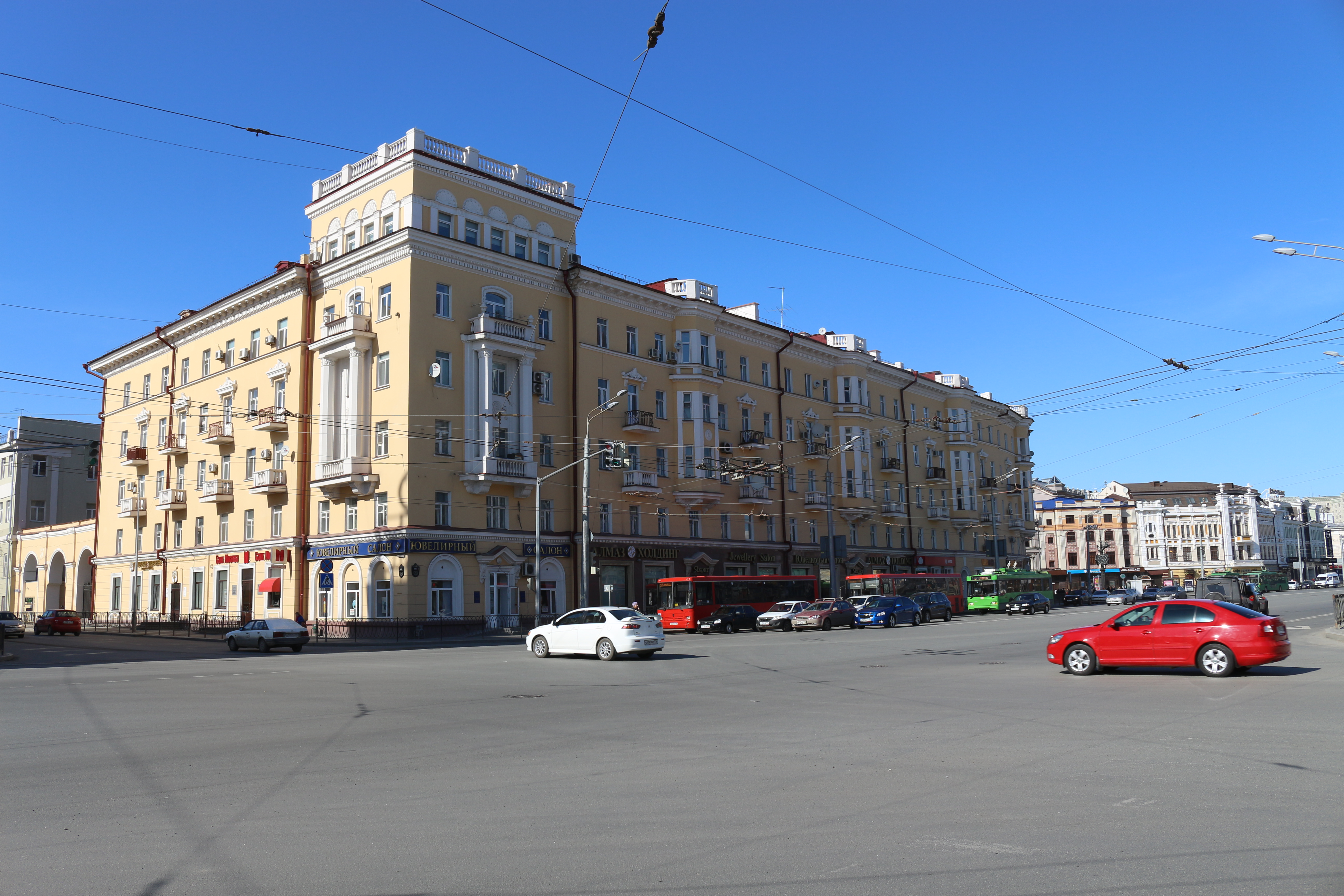 House on Pushkin-street.